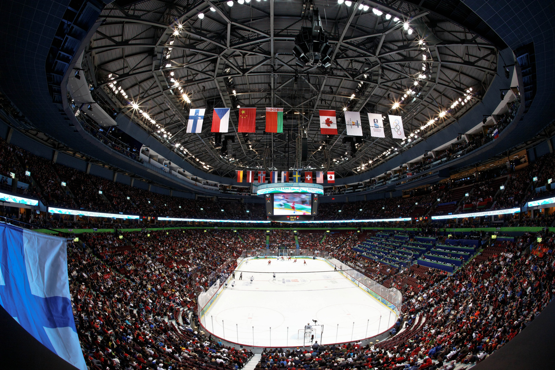 Canada Hockey Place at Winter Olympics 2010 during game Finland vs Belarus